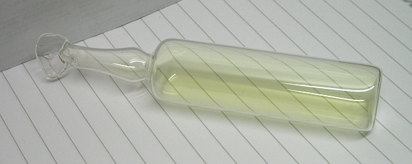 Chlorine gas in an ampoule